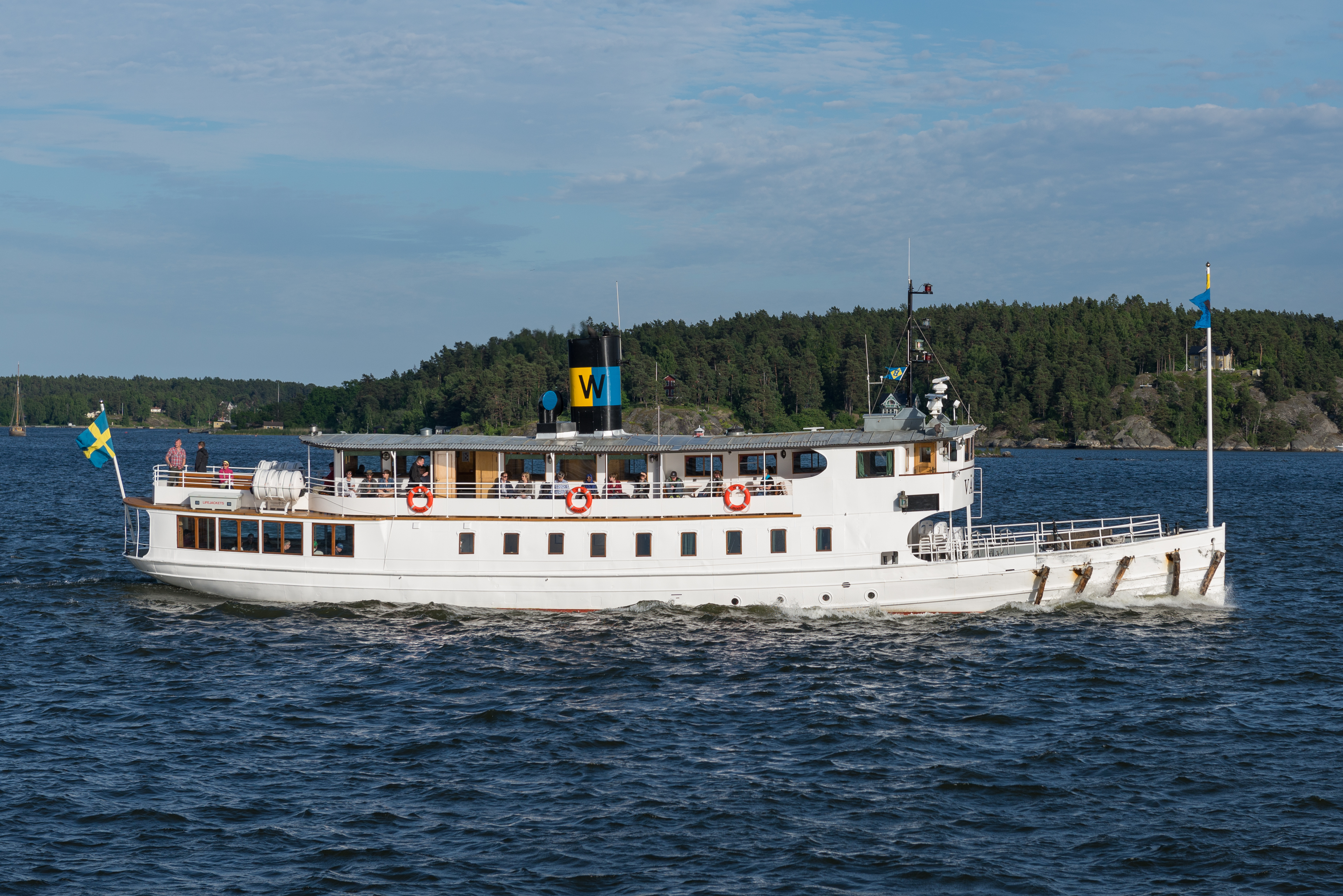 MS Västan outside Vaxholm in Stockholm archipelago.